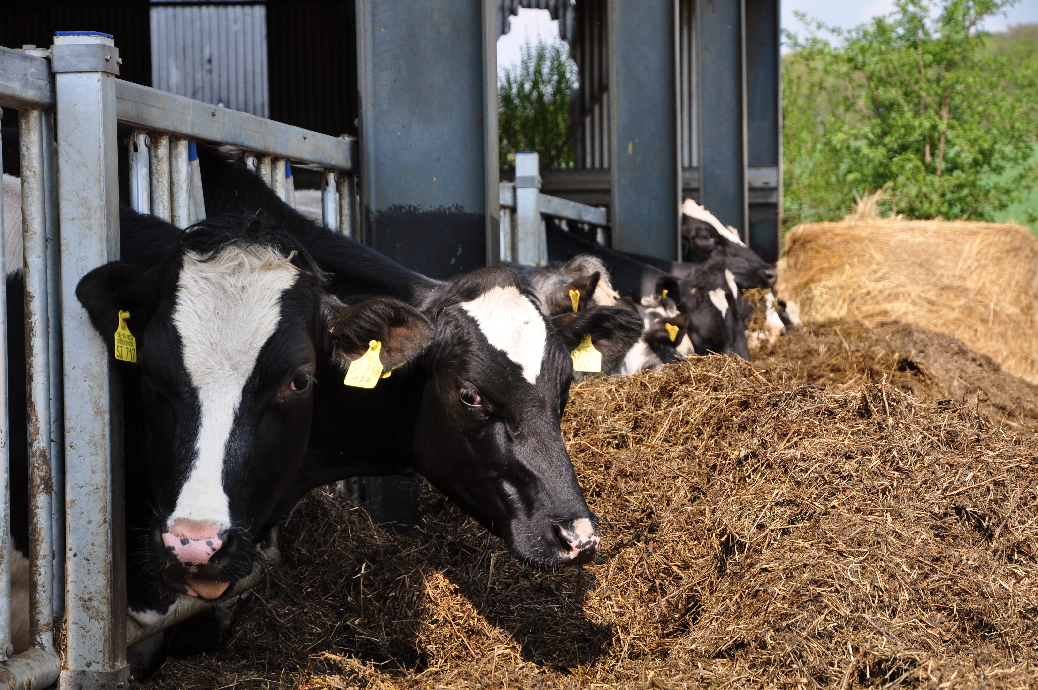 Young cattle – the milk cows at the organic farm, eating hay silage